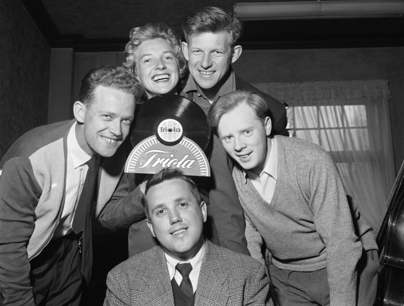 Norwegian vocal group, "The Monn Keys". From the left; Oddvar Sanne, Sølvi Wang, Per Asplin and Arne Bendiksen. In front composer and producer for the group, Egil Monn-Iversen.